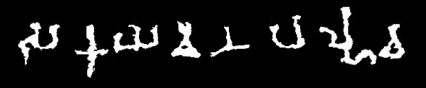 Saka-Yavana-Palhava (Pa-LaHa-Va) inscription in the Nasik cave 3 inscription of Queen Gotami Balasiri